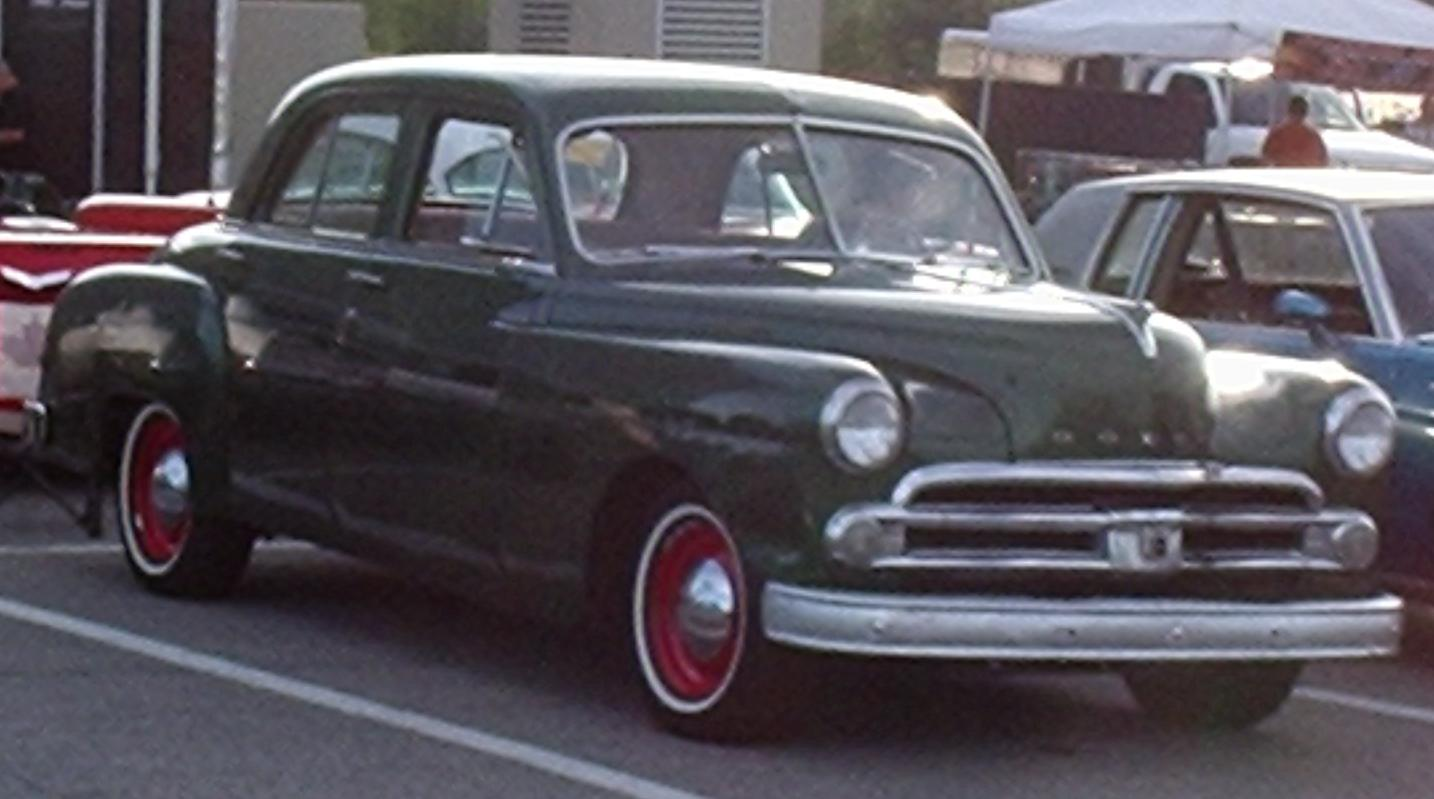 1950 Dodge Meadowbrook (sadly missing most chrome trim), photographed in Laval, Quebec, Canada at Les chauds vendredis.